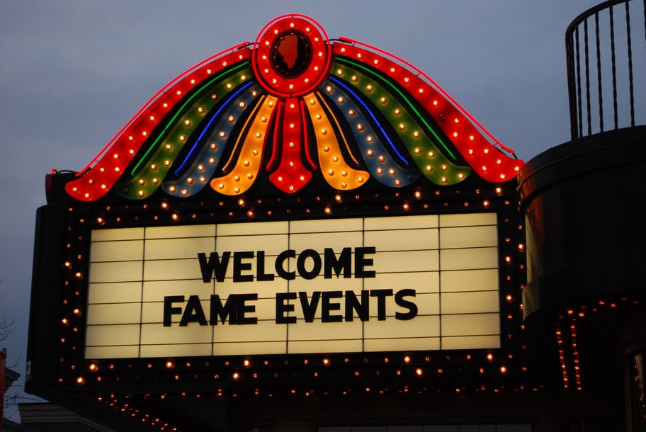 Marquee sign outside of Genesee Theatre — in Waukegan, Illinois.